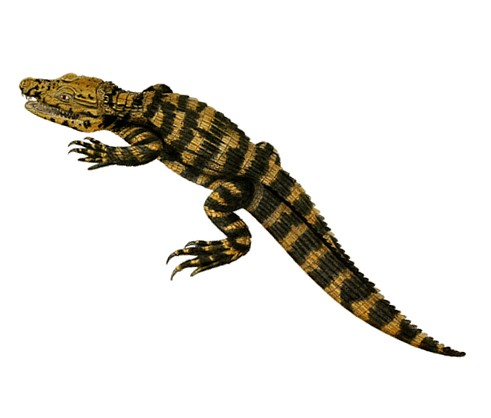 Caiman niger = Melanosuchus niger (Black Caiman)